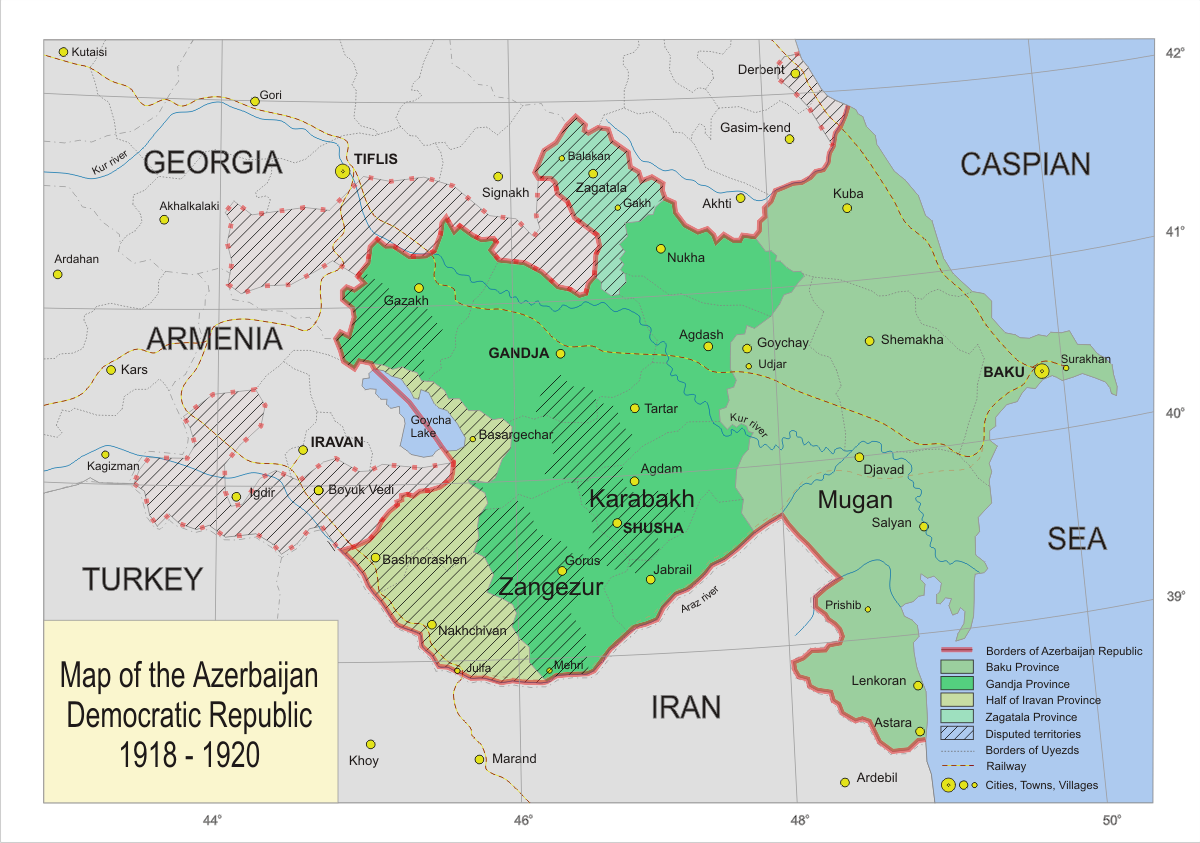 Map of the territories claimed by the first Azerbaijan Democratic Republic 1918-1920. Based on the sources listed below: 1.On the Religious Frontier: Tsarist Russia and Islam in the Caucasus. Autor: Firouzeh Mostashari I.B.Tauris, 2006, ISBN 1850437718, 9781850437710 2.The Azerbaijani Turks: Power and Identity Under Russian Rule Autor: Audrey L. Altstadt Hoover Press, 1992, ISBN 0817991824, 9780817991821 3.Mudros to Lausanne Britain's Frontier in West Asia, 1918-1923 Autor: Briton Cooper Busch SUNY Press, 1976, ISBN 0873952650, 9780873952651 4.Copy of Official Map Issued by the Azerbaijan Democtratic Republic in 1919 on Wikipedia 5.The Atlas Of Ethnopolitical History of The Caucasus (1774-2004) Autor:Arthur Tsutsiev “Evropa”, Moscow, 2006, ISBN 5-9739-0045-2